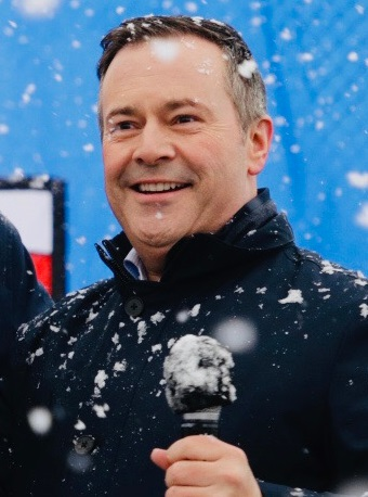 United Conservative Party of Alberta leader Jason Kenney in 2019.